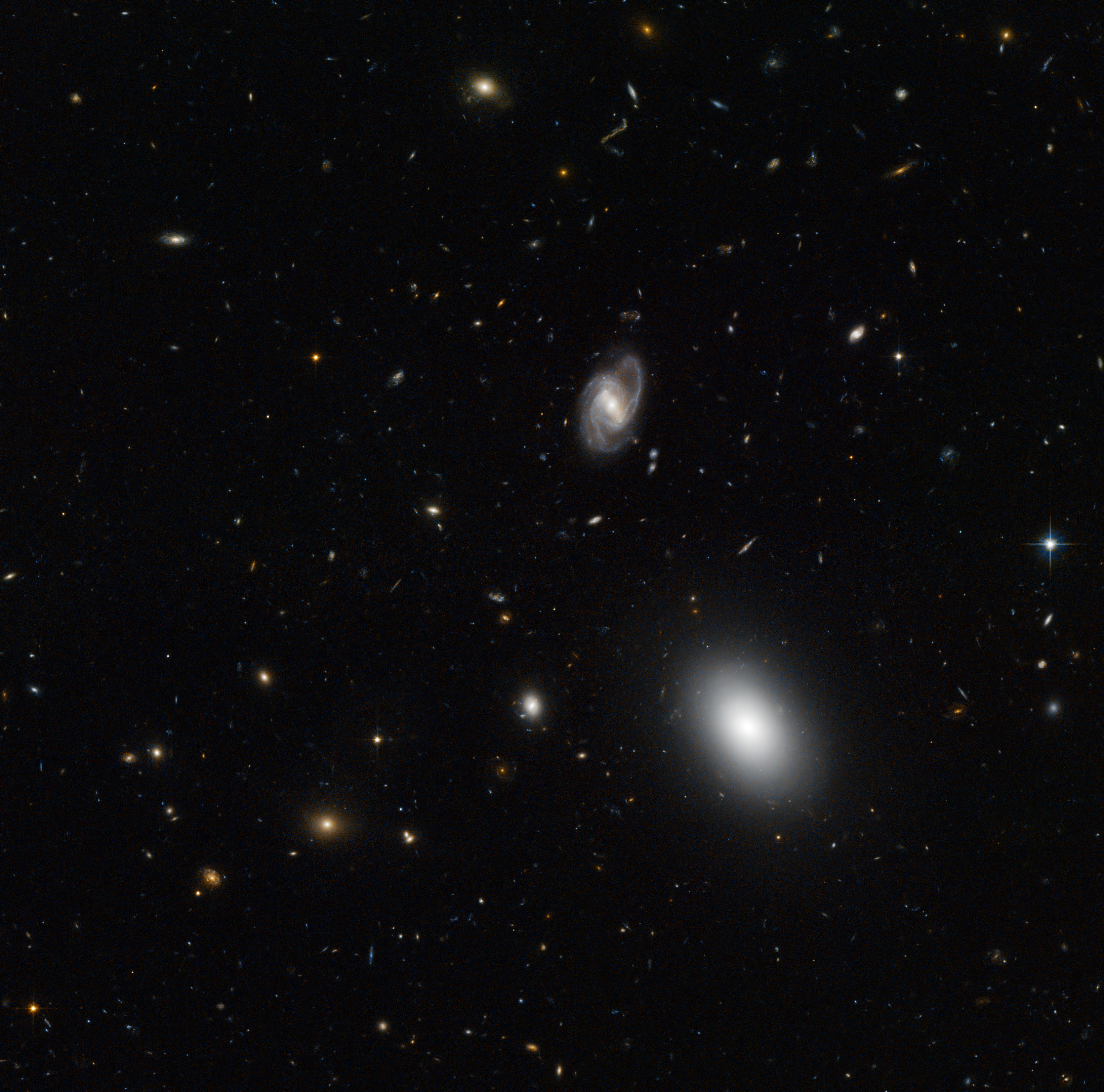 Galaxies come in a variety of shapes and sizes, and these features change as they evolve. Some, like the galaxy in the centre of this NASA/ESA Hubble Space Telescope image, are beautiful spirals with graceful curved arms, while others are fuzzy oval-shaped blobs like the large object showing up near the bottom right of the frame (2MASX J14205416+5307062). Others still are rather irregular in shape, such as the orange galaxy at the top of the image, which resembles a tiny wobbling string. This picture is one of the few hundred exposures taken with Hubble’s Advanced Camera for Surveys to assemble the “Extended Groth Strip”. This strip, named after the Princeton University astronomer Edward Groth, is a composite picture of a rectangular region of the sky in the constellation of Ursa Major. It covers a relatively small area in the sky — equivalent to roughly the width of a finger stretched at arms’ length — but includes at least 50 000 galaxies. The images that make up the Extended Groth Strip allow astronomers to peer into the last eight billion years of the Universe’s history and to see galaxies at various stages of their evolution. The large elliptical and spiral objects we see in the foreground of this image are fully-formed adult galaxies. But many of the ones in the background, fuzzier and more peculiar in shape, are representative of a time when galaxies were undergoing active formation. Images like these help astronomers to understand how galaxies change in size and shape as they evolve, from their early formative years — punctuated by violent events such as the growth of the vast black holes at their centres and collisions with other galaxies — into their quieter adult lives. This picture was created from visible and infrared exposures taken with the Wide Field Channel of Hubble’s Advanced Camera for Surveys.